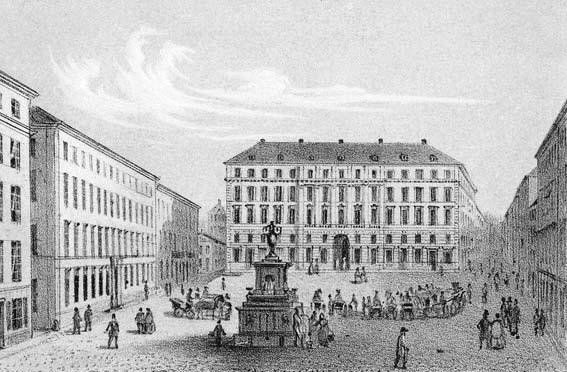 The building "Brunkebergs hotell" at Brunkebergstorg 2 in central Stockholm, Sweden. The Stockholm School of Economics (Handelshögskolan i Stockholm) was located in this building 1909-1928. The building was during the 1960's replaced by the new building for Riksbanken (Swedish: The Central Bank)